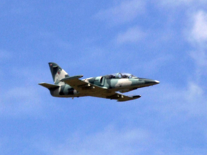 L-39ZA/ART of Royal Thai Air Force during SAREX 2007 at Chiang Mai International Airport, also Wing41 of RTAF